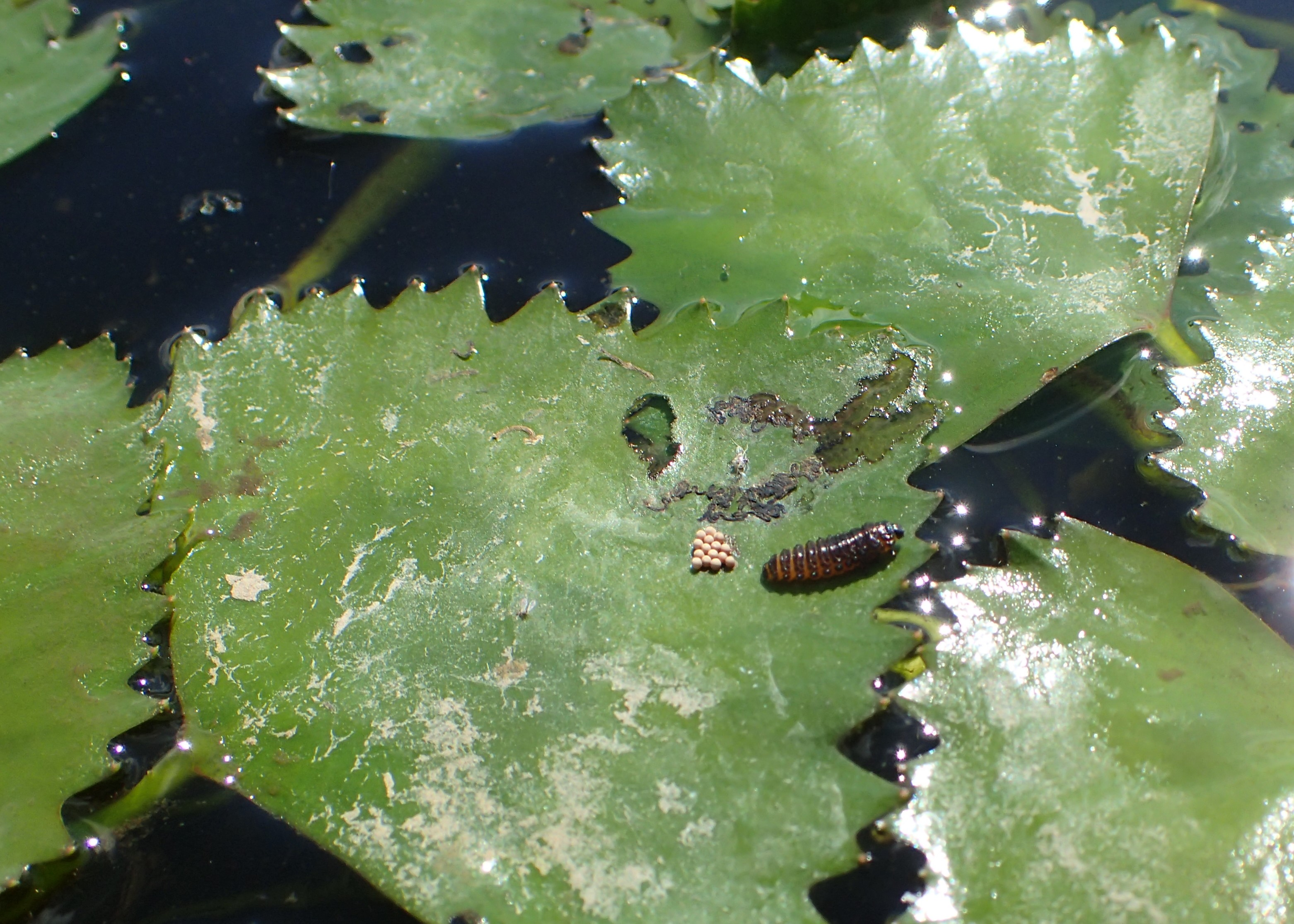 Trapa natans with Galerucella nymphaeae in Regalica (east arm of Oder river) and Obnica Północna (its side arm) near Szczecin Podjuchy, NW Poland